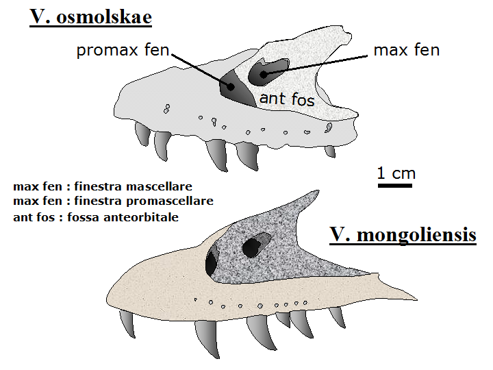 Comparison between the maxillar bones of Velociraptor osmolskae and V. mongoliensis. After Godefroit et al. (2008), modified. Text in Italian.